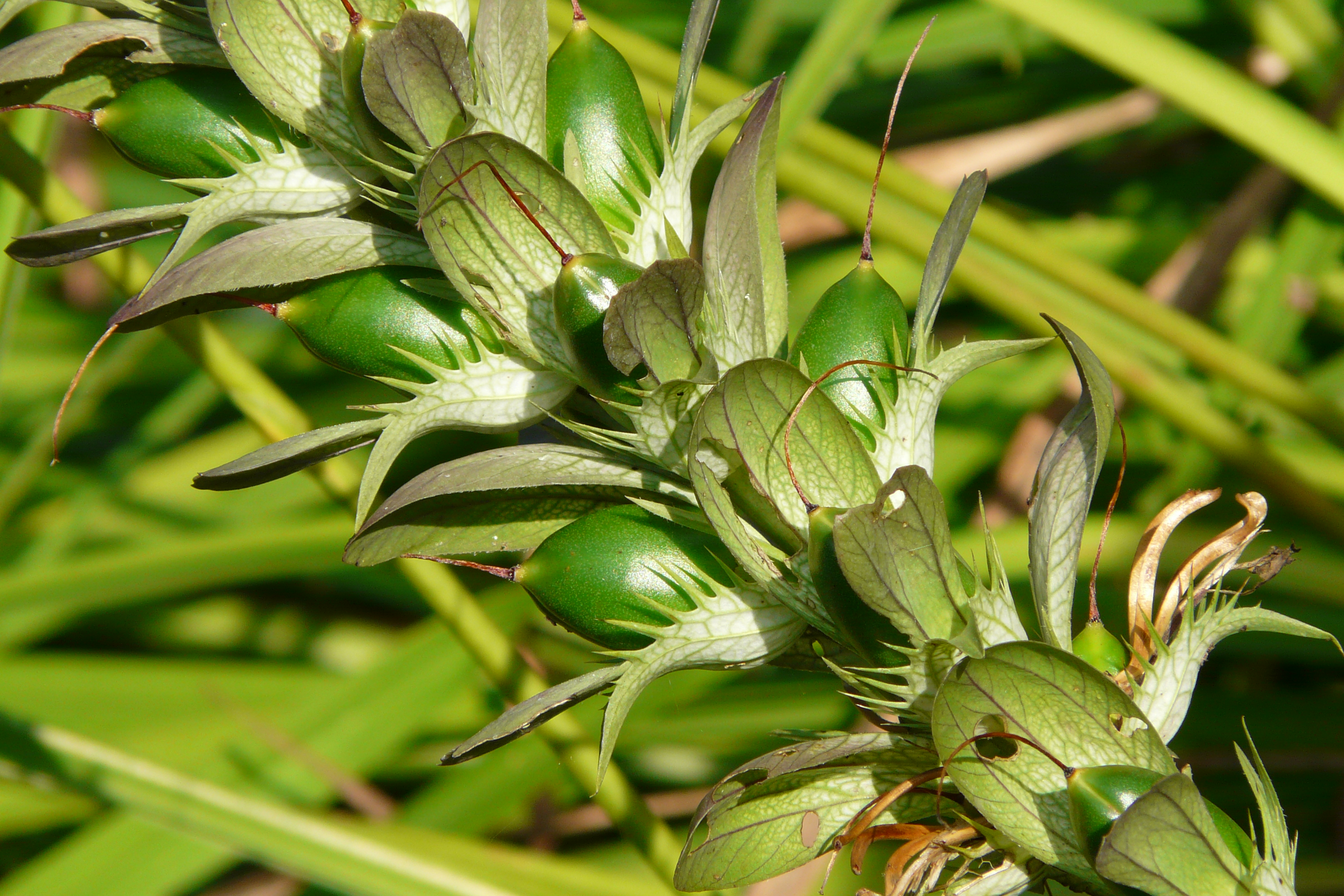 Fruits of Acanthus mollis